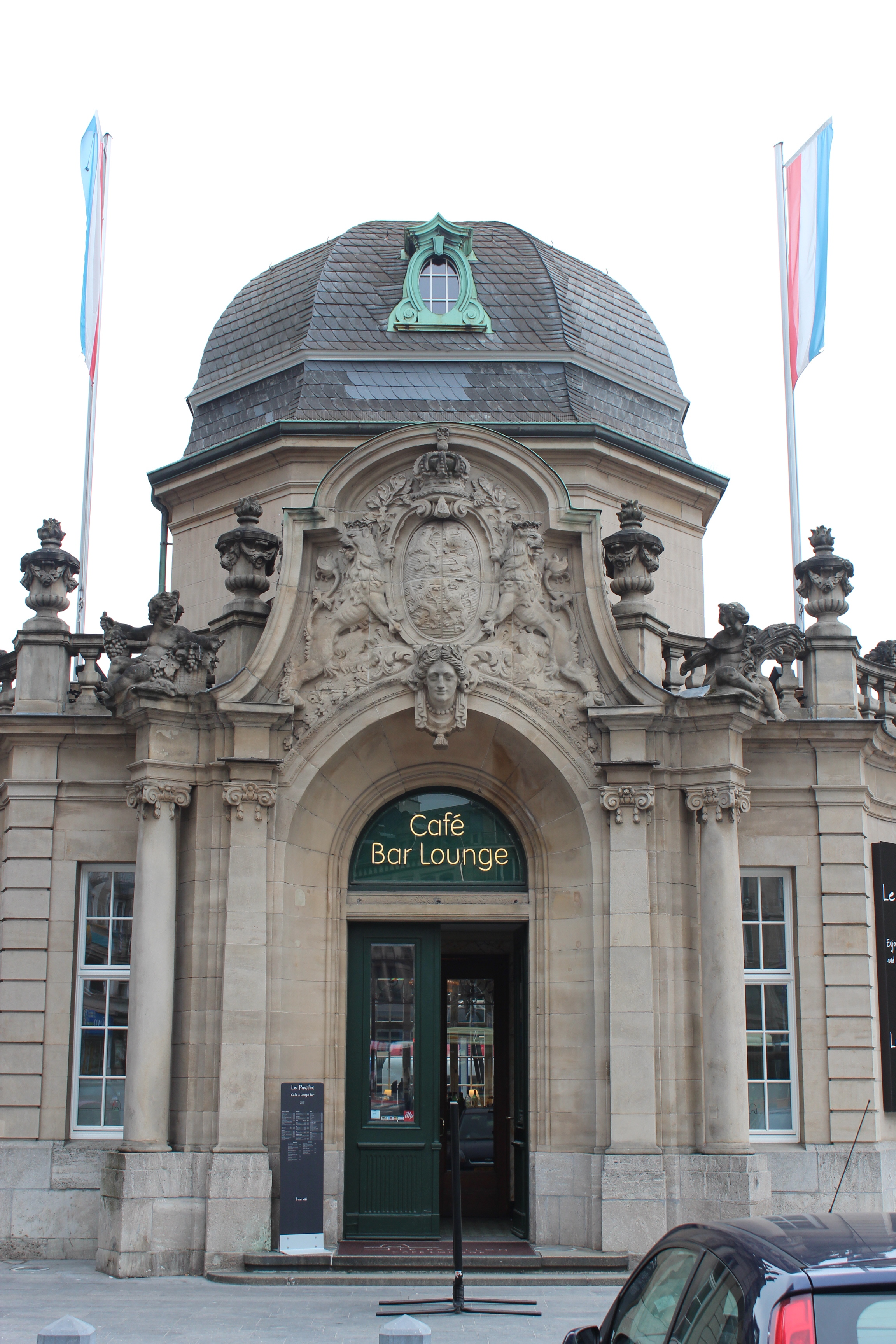 Former Grand-ducal pavillion of Luxembourg City railway station.